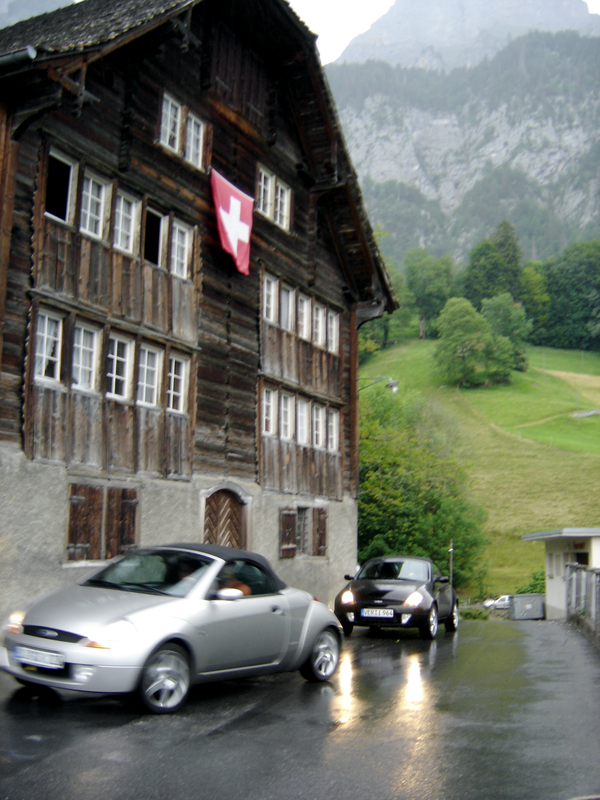 The old post in Walenstadtberg